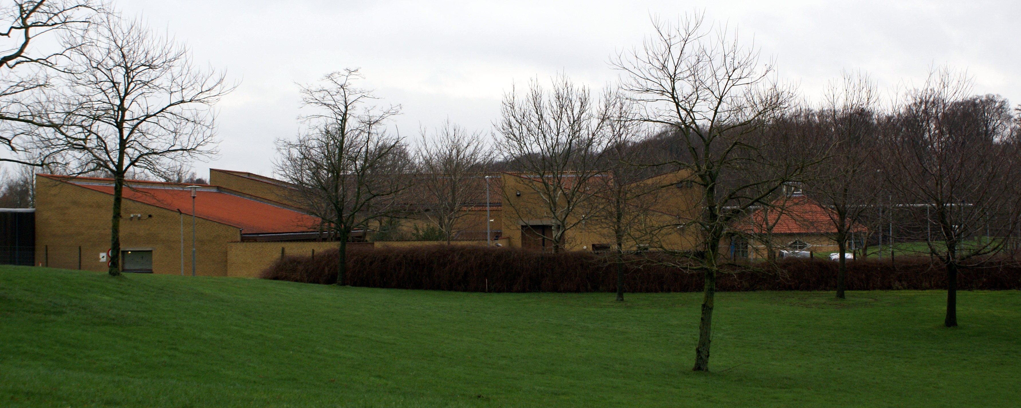 Sikringen.